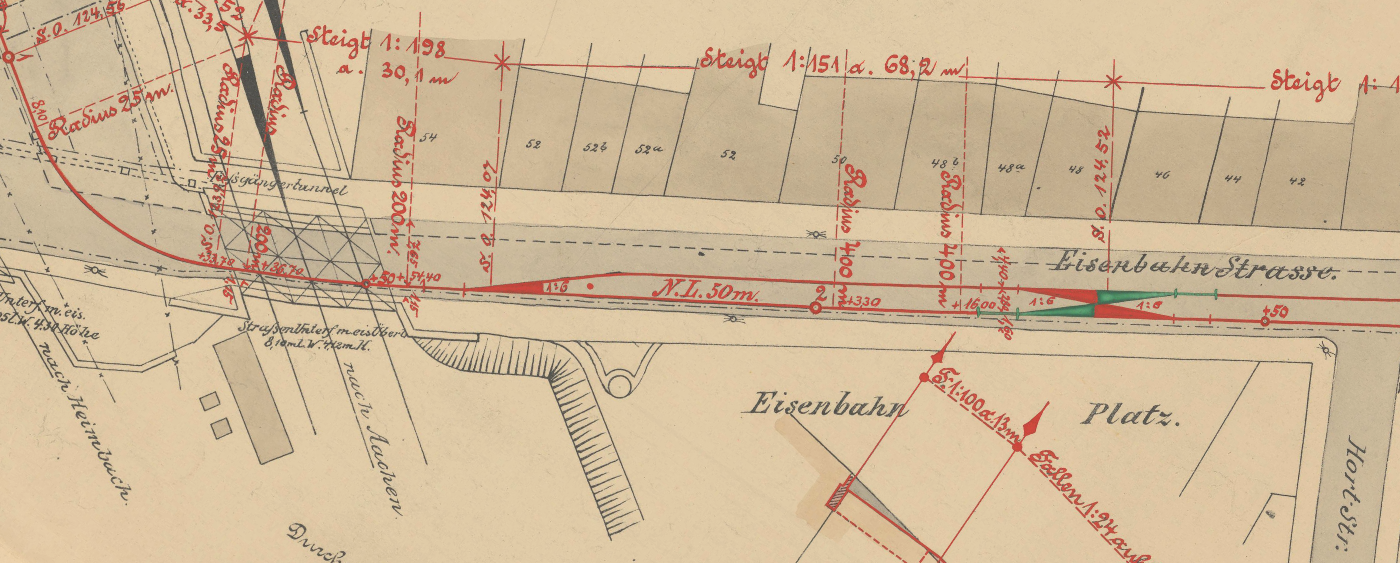 Plan of tram loop at Düren main station